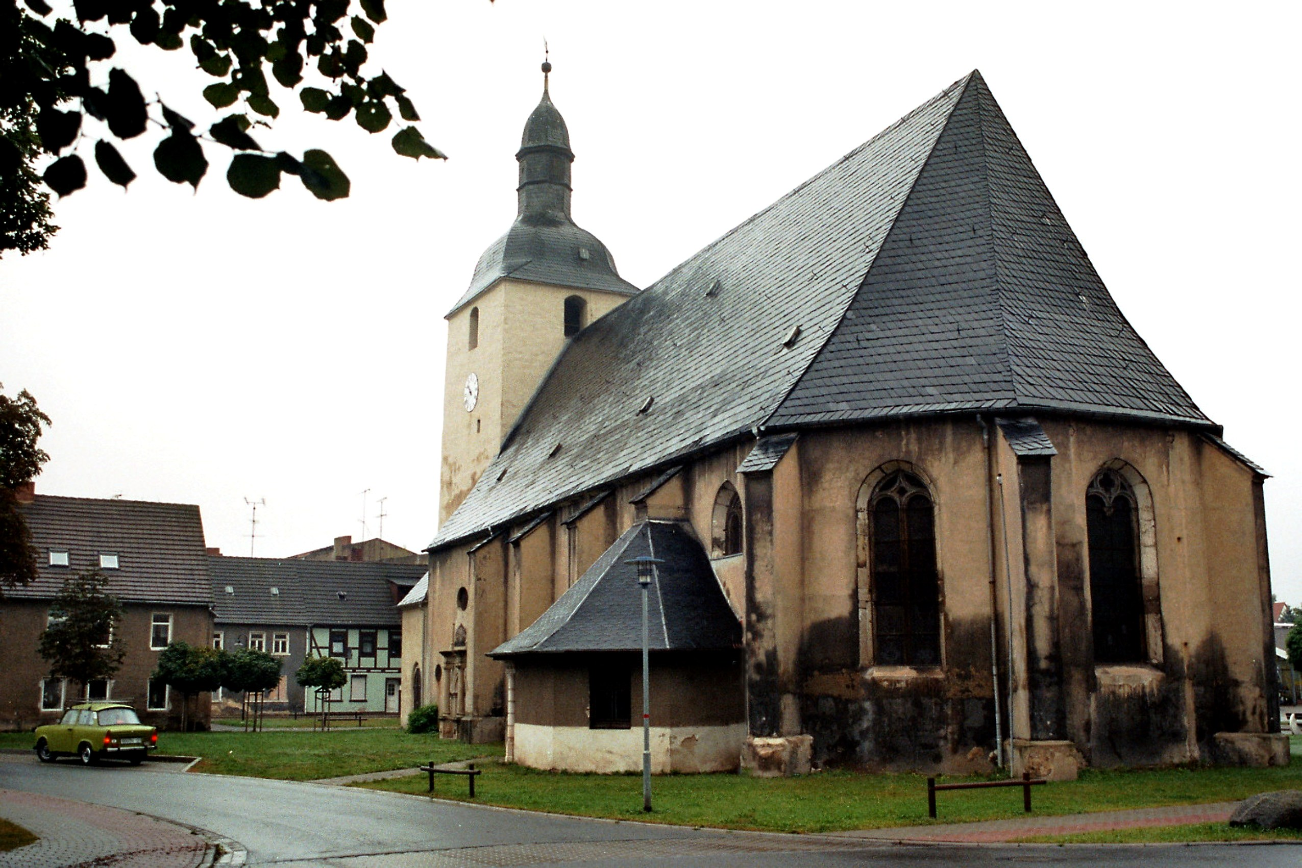 Güsten, the church St. Vitus This is a photograph of an architectural monument. 60116